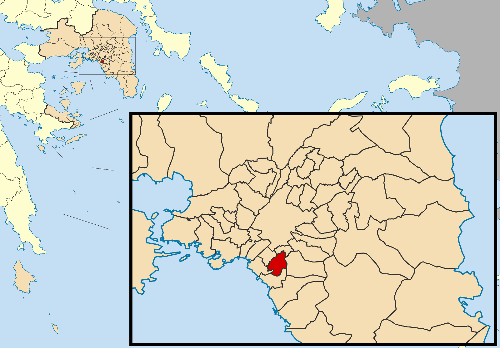 Locator map for Agios Dimitrios municipality in Greek region Attica (2011)